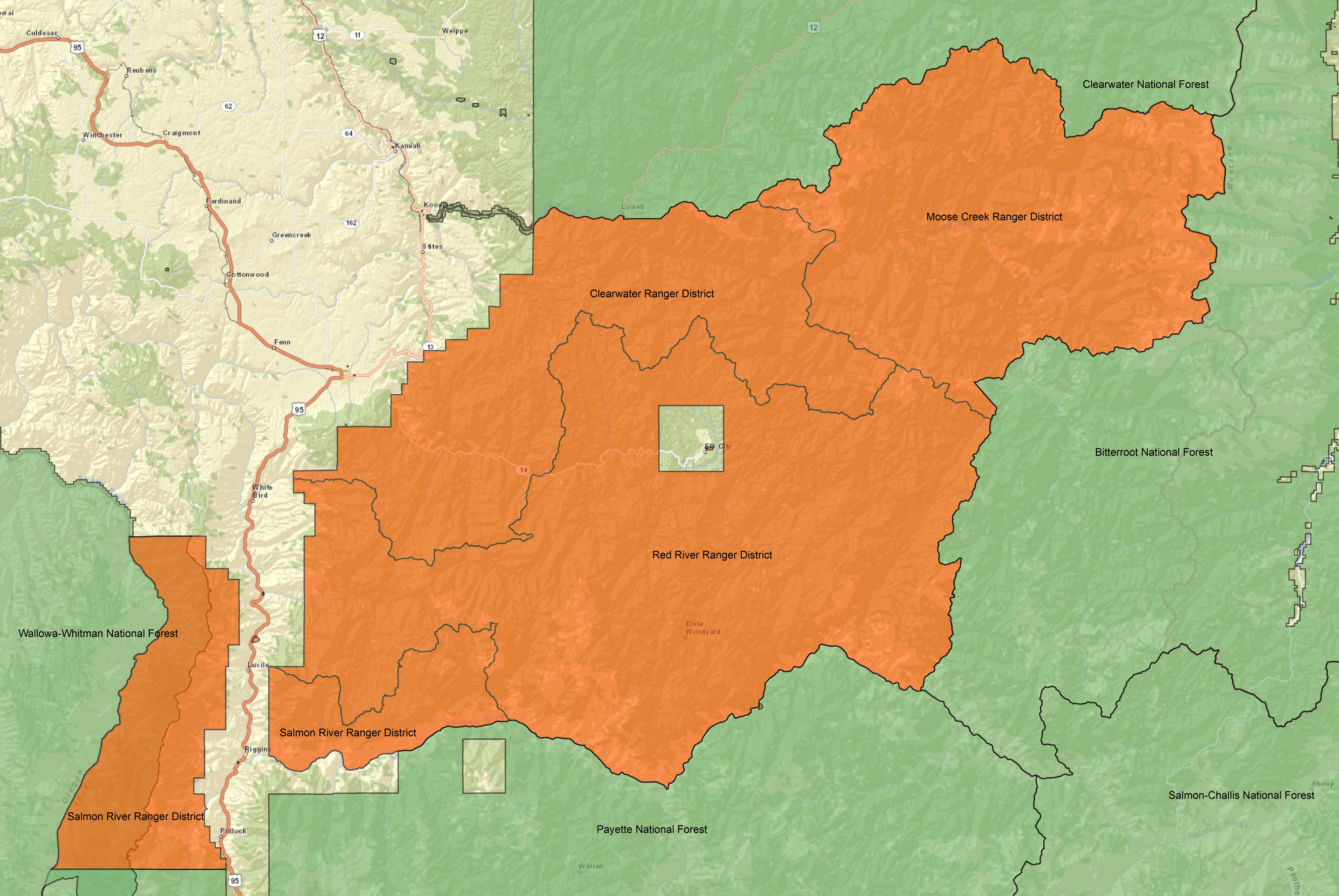 A map of the Nez Perce National Forest — in Idaho. The Clearwater, Moose Creek, Red River, and Salmon River Ranger Districts, of Nez Perce National Forest, are in orange. Surrounding National Forests, including Boise, Clearwater, Payette, Salmon-Challis, and Wallowa-Whitman are in green. This map was made using ARCGIS 10, and all data are in the public domain. Forest Service boundary data are from the US Forest Service FSGeodata Clearinghouse